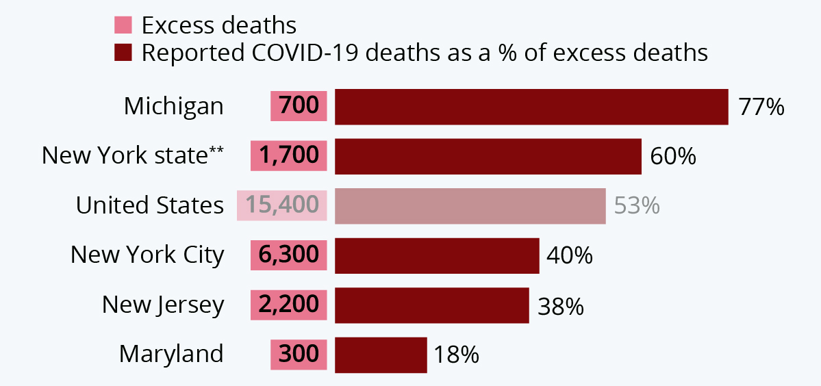 Excess mortality in the United States from March 1 to April 4